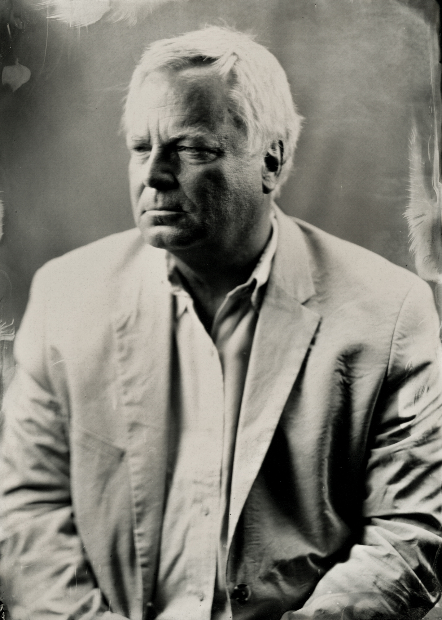 Wet plate collodion 5x7" black glass ambrotype of North Dakota historian Clay Jenkinson